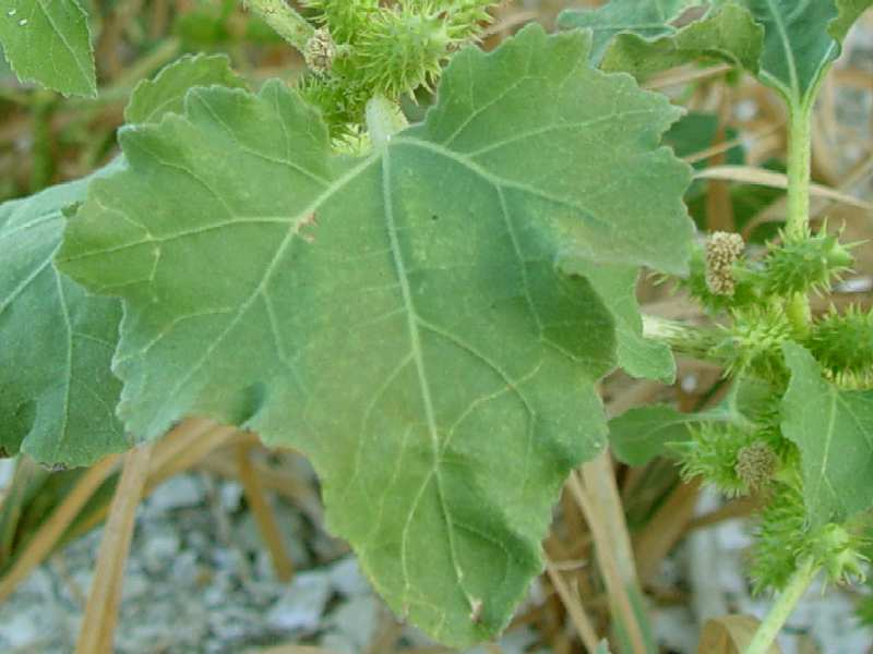 Description Xanthium strumarium, cocklebur. Date September 29, 2002 Location Wilbur Hot Spring, Colusa Co., CA, California Photographer Franco Folini